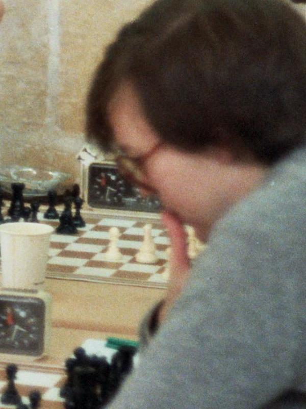 Margeir Pétursson, Malta 1980.